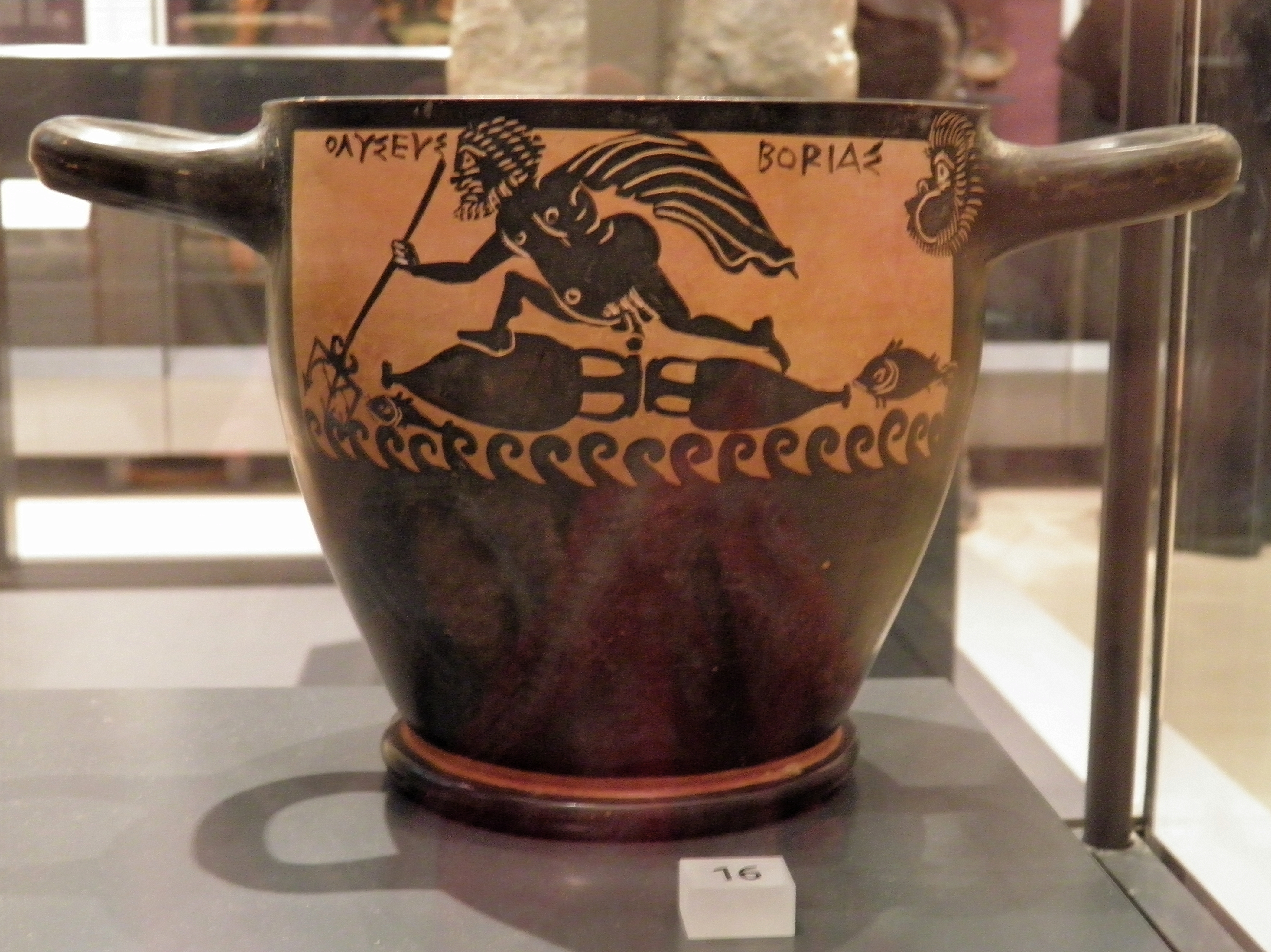 Boetian black-figure pottery skyphos (wine-cup), found at Thebes, 4th century BC, Odysseus at sea on a raft of amphoras, Ashmolean Museum